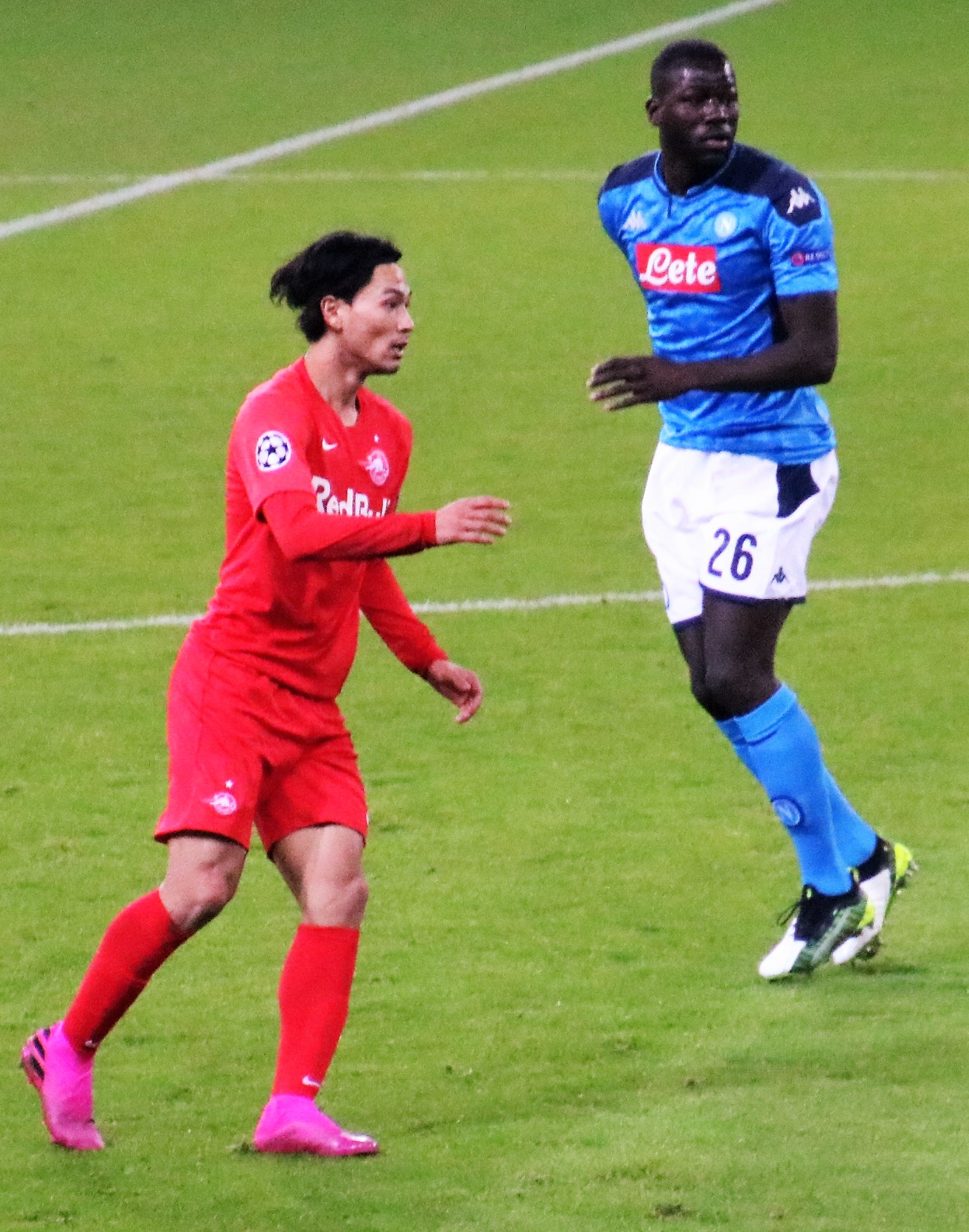 3rd round UEFA Champions League